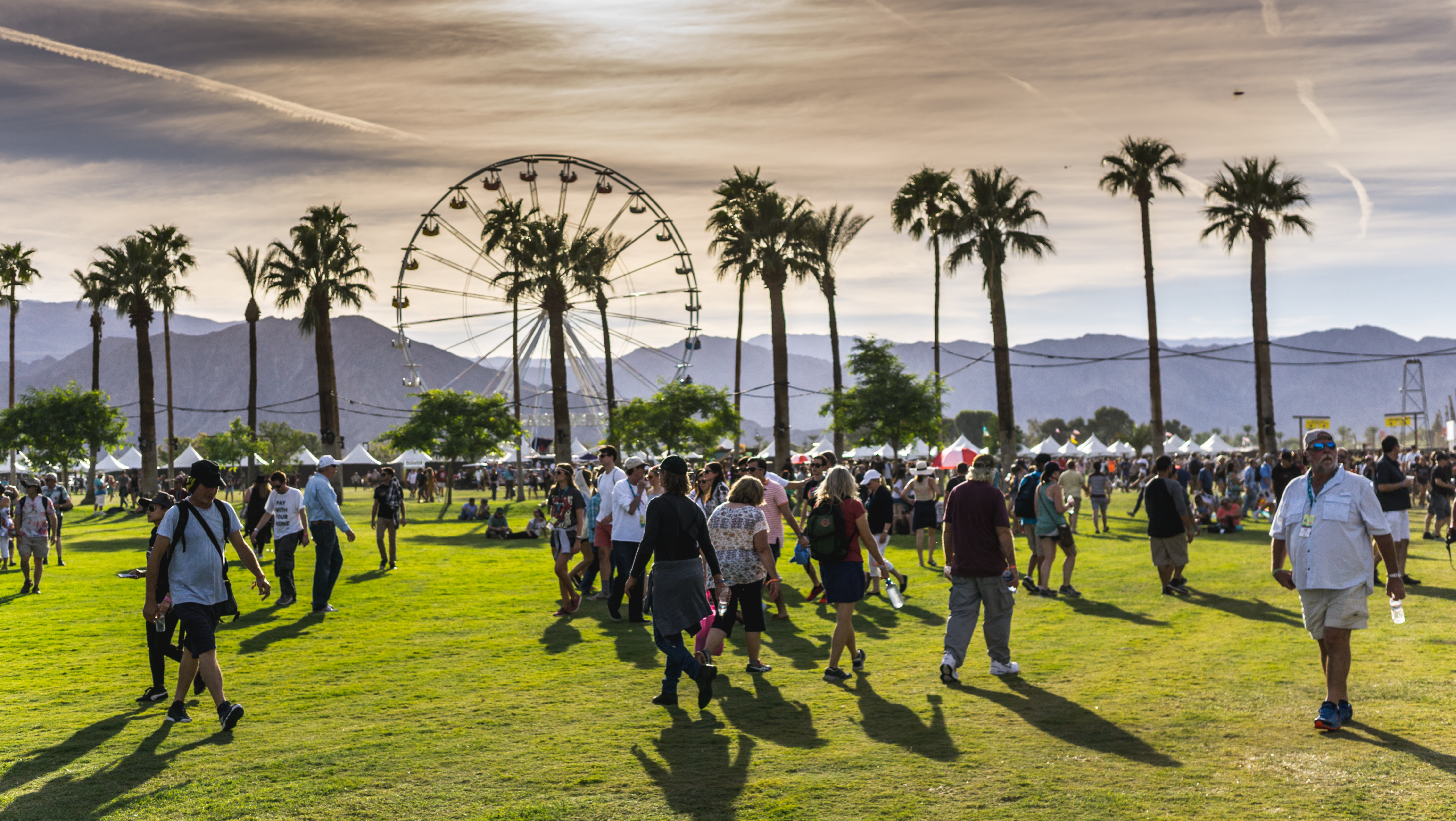 From the music festival Desert Trip, held at the Empire Polo Club